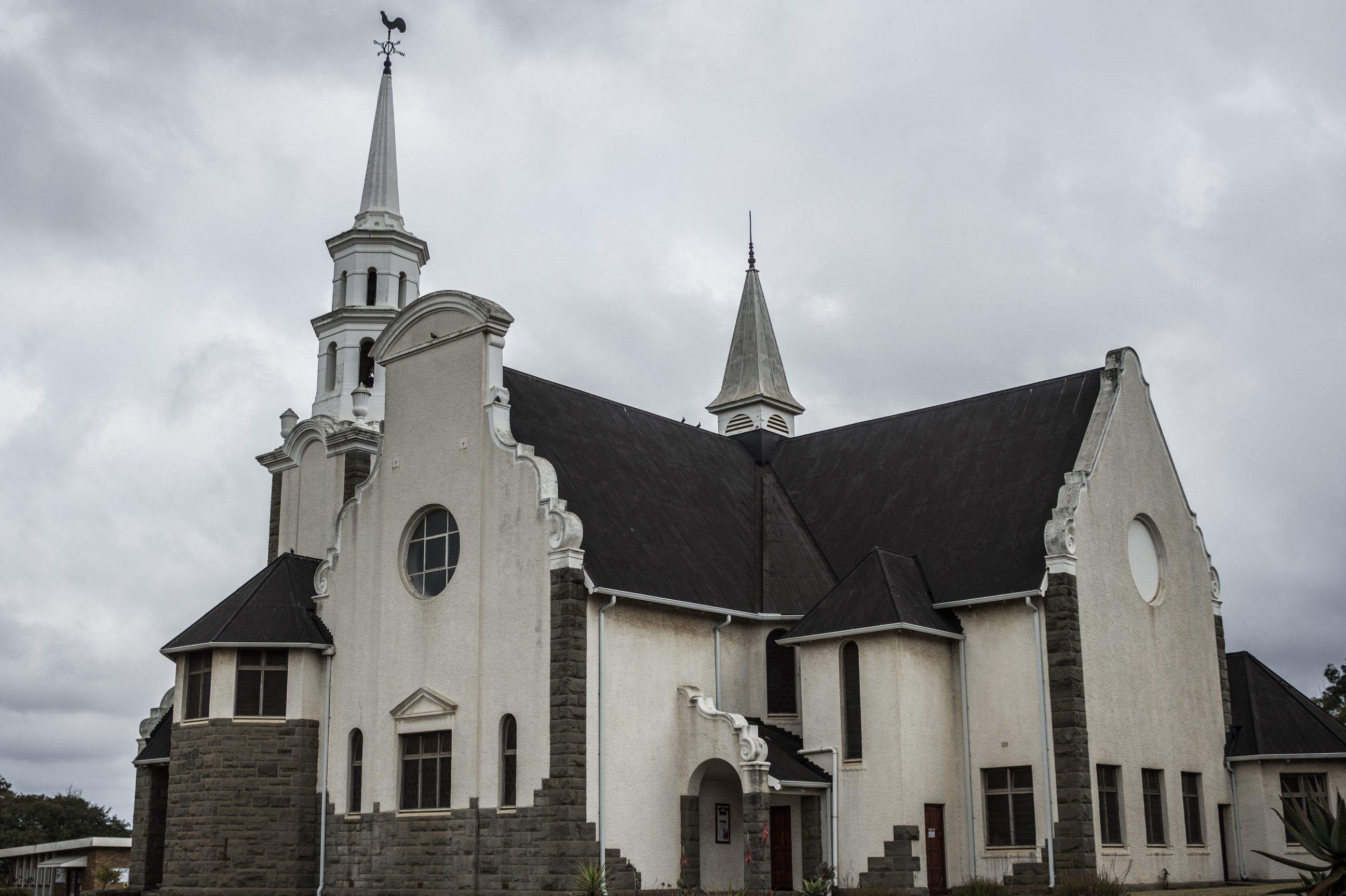 Dutch Reformed Church, Church Street, Piet Retief This media shows a South African Protected Site with SAHRA file reference 9/2/254/0001.